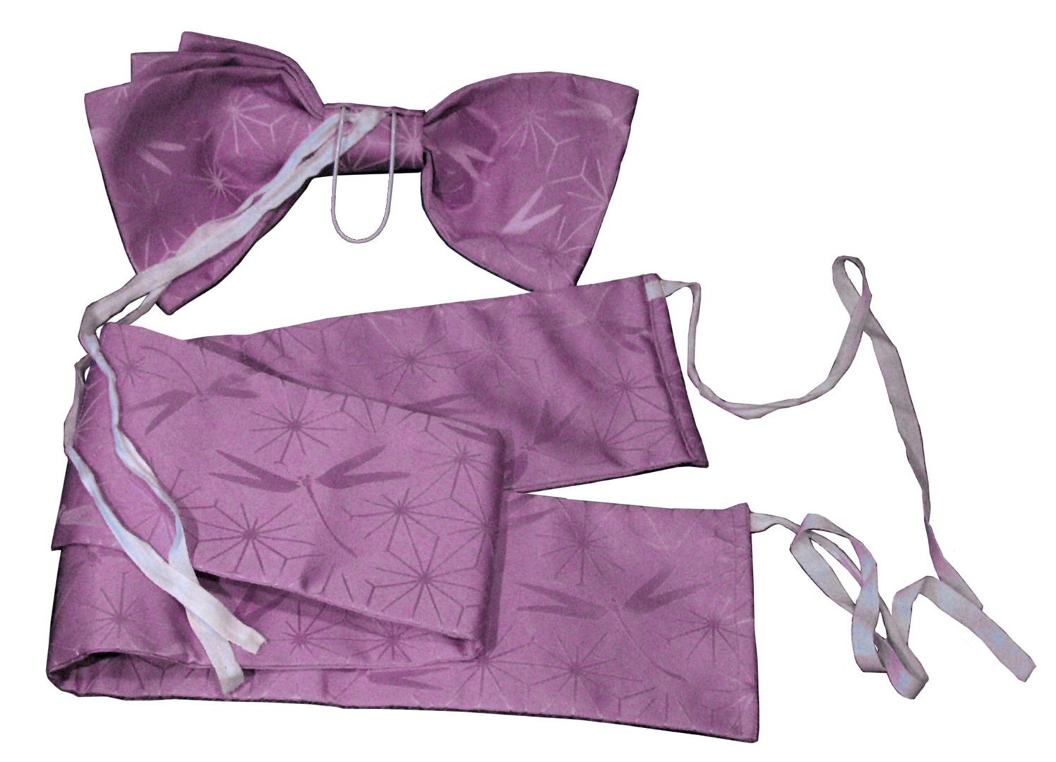 Lilac tsuke/kantan/tsukuri obi opened.